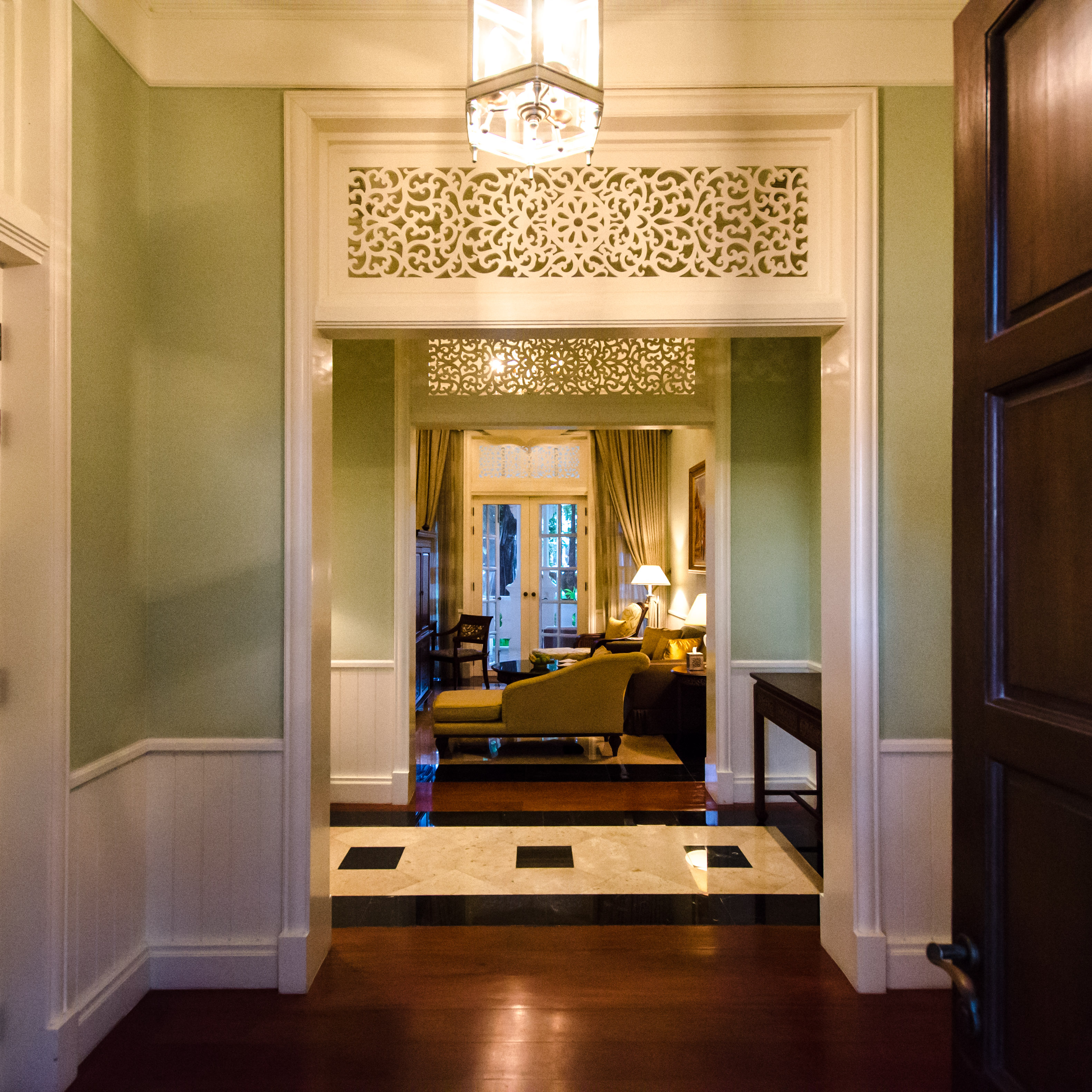 The entrance hallway of one of the suites in the "colonial building" of the Mandarin Oriental Dhara Dhevi in Chiang Mai.